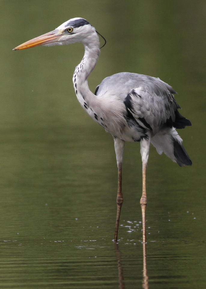 Grey Heron, Ardea cinerea at Kruger National Park, South Africa